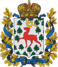 Siedlce gubernia (Russian empire), coat of arms